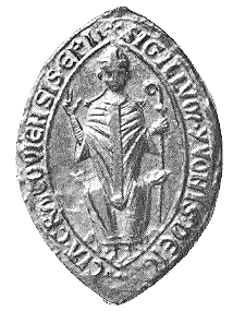 Iwo Odrowąż seal